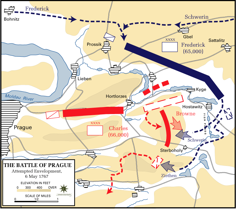 Battle of Prague, 6 May 1757 - Attempted envelopment (map is incorrectly dated 1767)